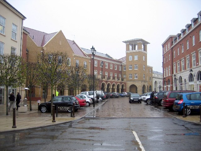 Dicken's Heath. A massive new town development now occupies much of the southern part of this square. This is the newly created "Village Centre" complete with smart shops and the inevitable supermarket.